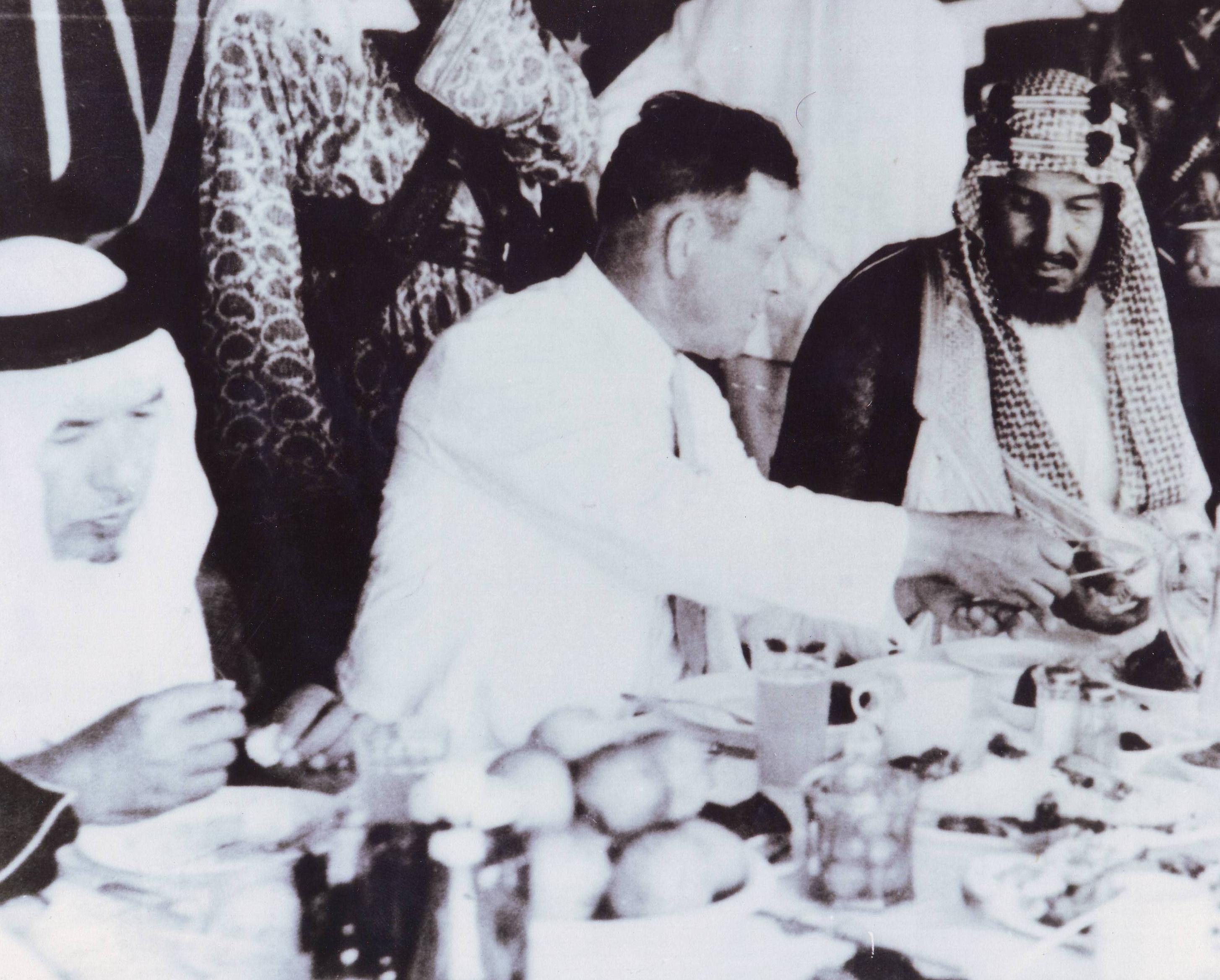 Right HM King Abdul Aziz, left Khaled Al Hakim